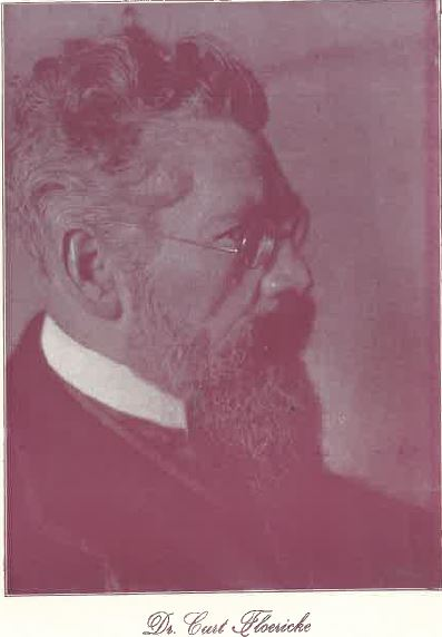 Kurt Ehrenreich Floericke 1869-1934